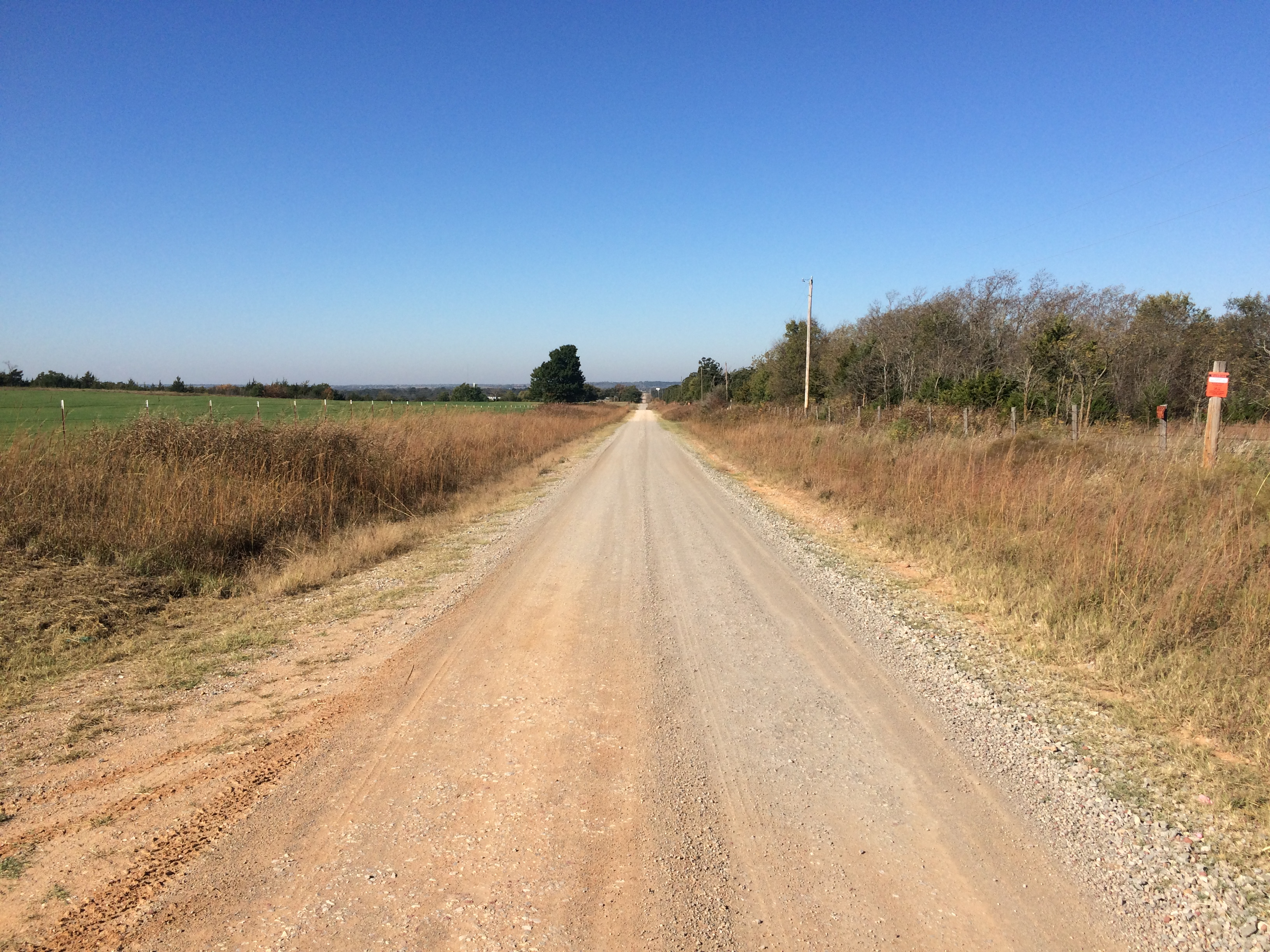 Ozark Trails Section of Route 66, Junction of N3540 Rd. and E0890 Rd. west to the junction of E0890 Rd. and the St. Louis – San Francisco railroad tracks. Stroud